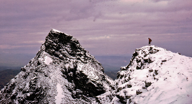 An Sgurr of Creag an Duine. Looking back to An Sgurr after an exhilarating direct climb up the steep ridge of An Sgurr from the valley below.